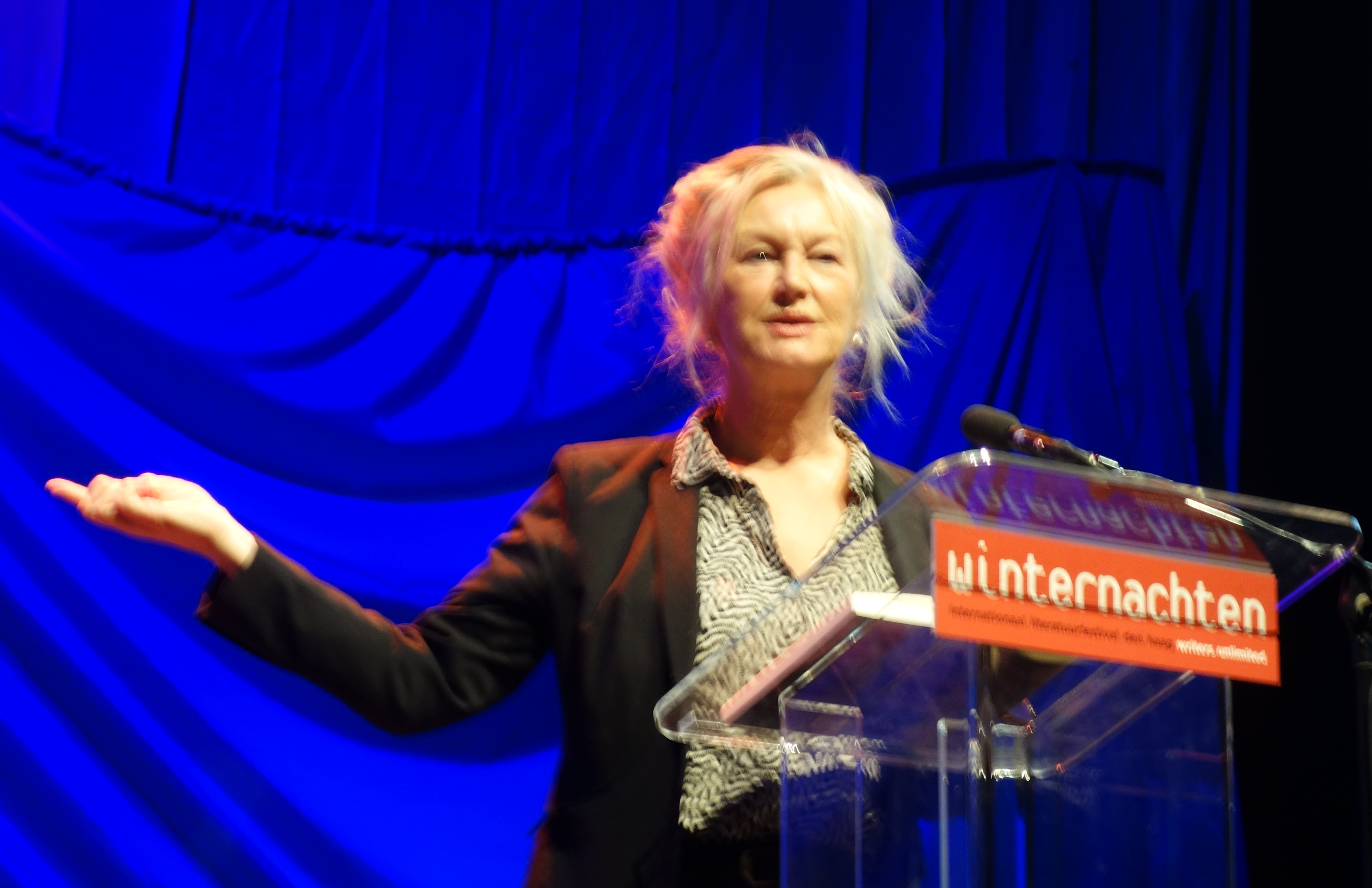 Dutch writer Joke Hermsen at Winternachten (Writers Unlimited) 2020, The Hague